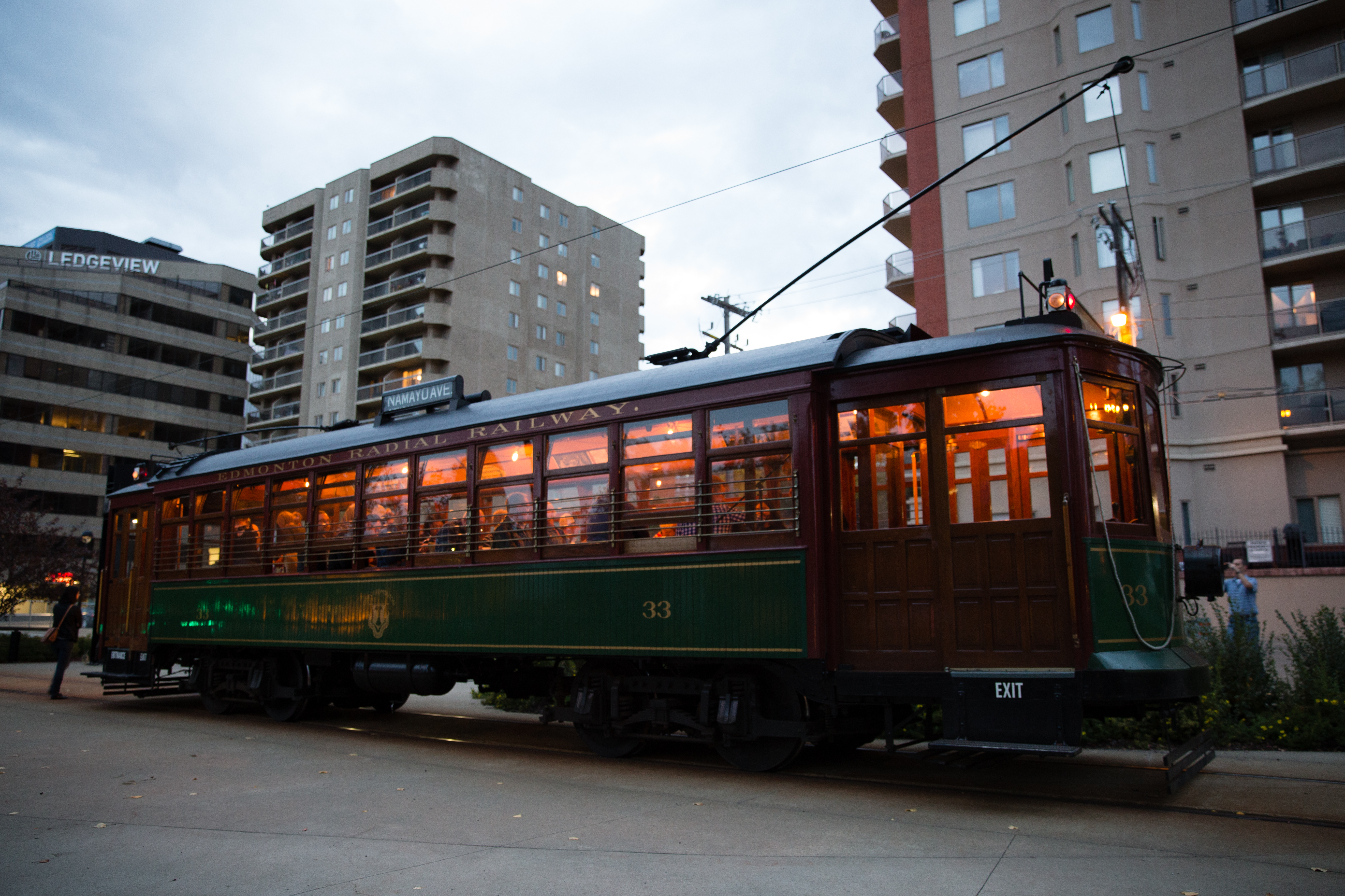 Ex-Edmonton Radial Railway car 33, built in 1912 by the St. Louis Car Company, in operation on the High Level Bridge Streetcar line.